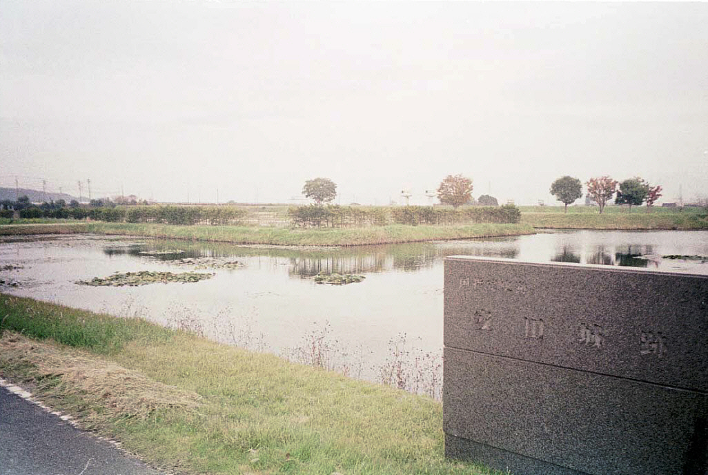 An image of the remains of an old castle 'Yasuda Jo' built in 16th century, laocated in Toyama city, Japan.